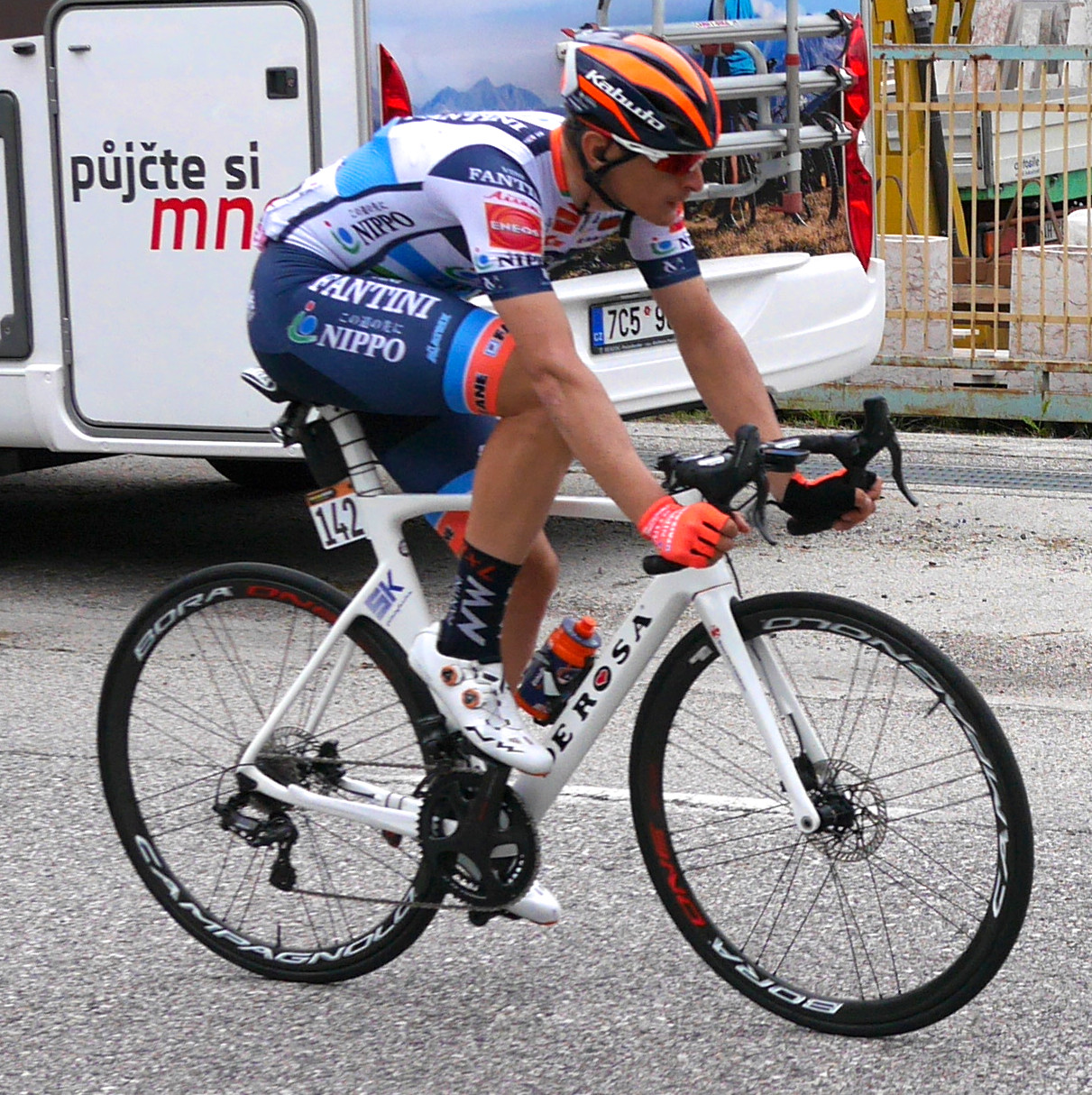 Damiano Cima, winner of Stage 18, Giro d'Italia 2019 (team Nippo–Vini Fantini–Faizanè)